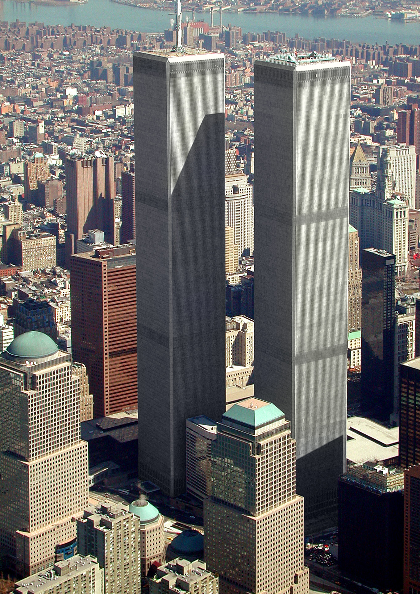 World Trade Center, New York, aerial view March 2001. (Modified slightly from original- please see details below.)